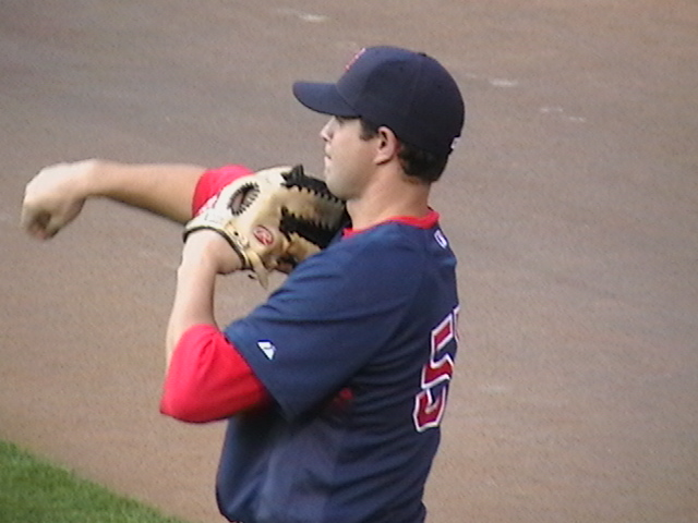 Jeff Bailey in a game vs. the Baltimore Orioles